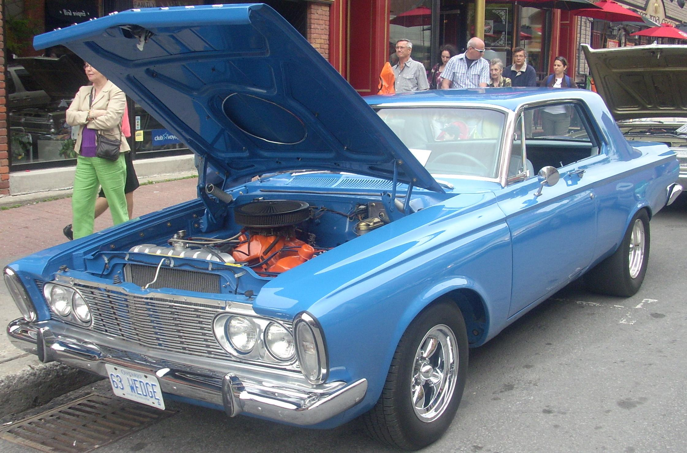 1963 Plymouth Belvedere photographed in Ottawa, Ontario, Canada at the Byward Market Auto Classic 2009.